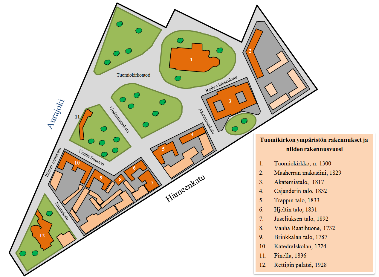 Map of the surroundings of the Old Great Square of Turku and Turku Cathedral